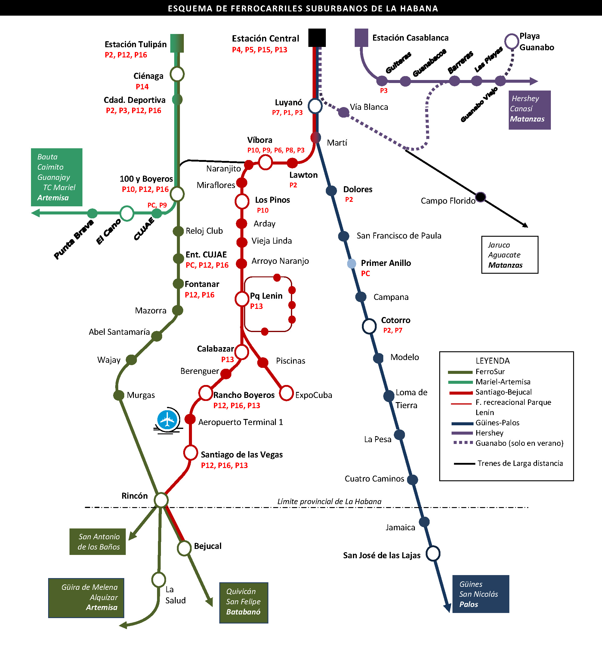 Schematic map of suburban railroad network in Havana, Cuba, with connections to the main Metrobus network